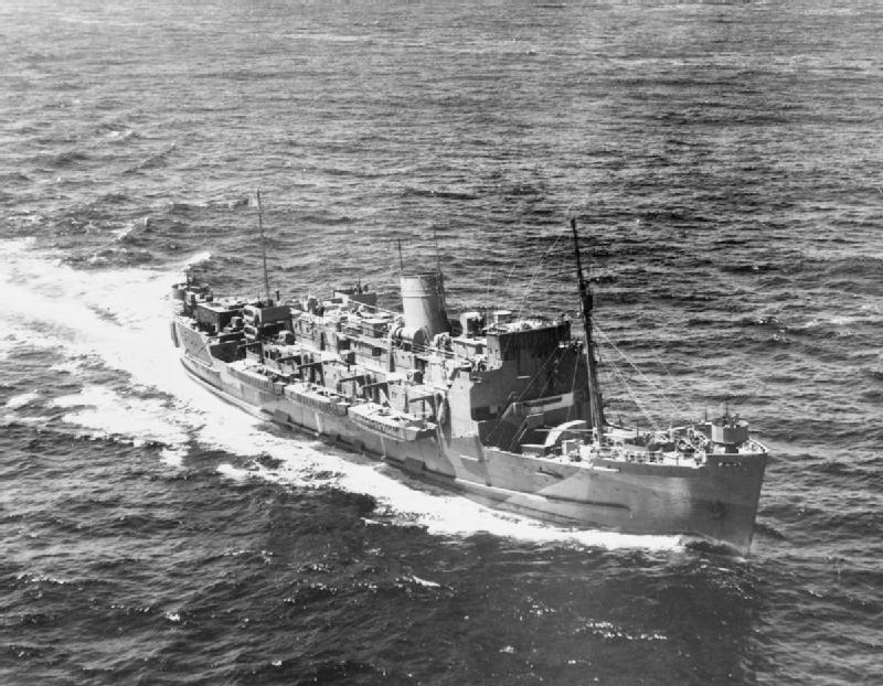 HMS Royal Ulsterman Underway.